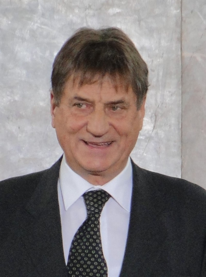 Claudio Magris after his speech at "Paulskirche" in Frankfurt am Main, 2009.